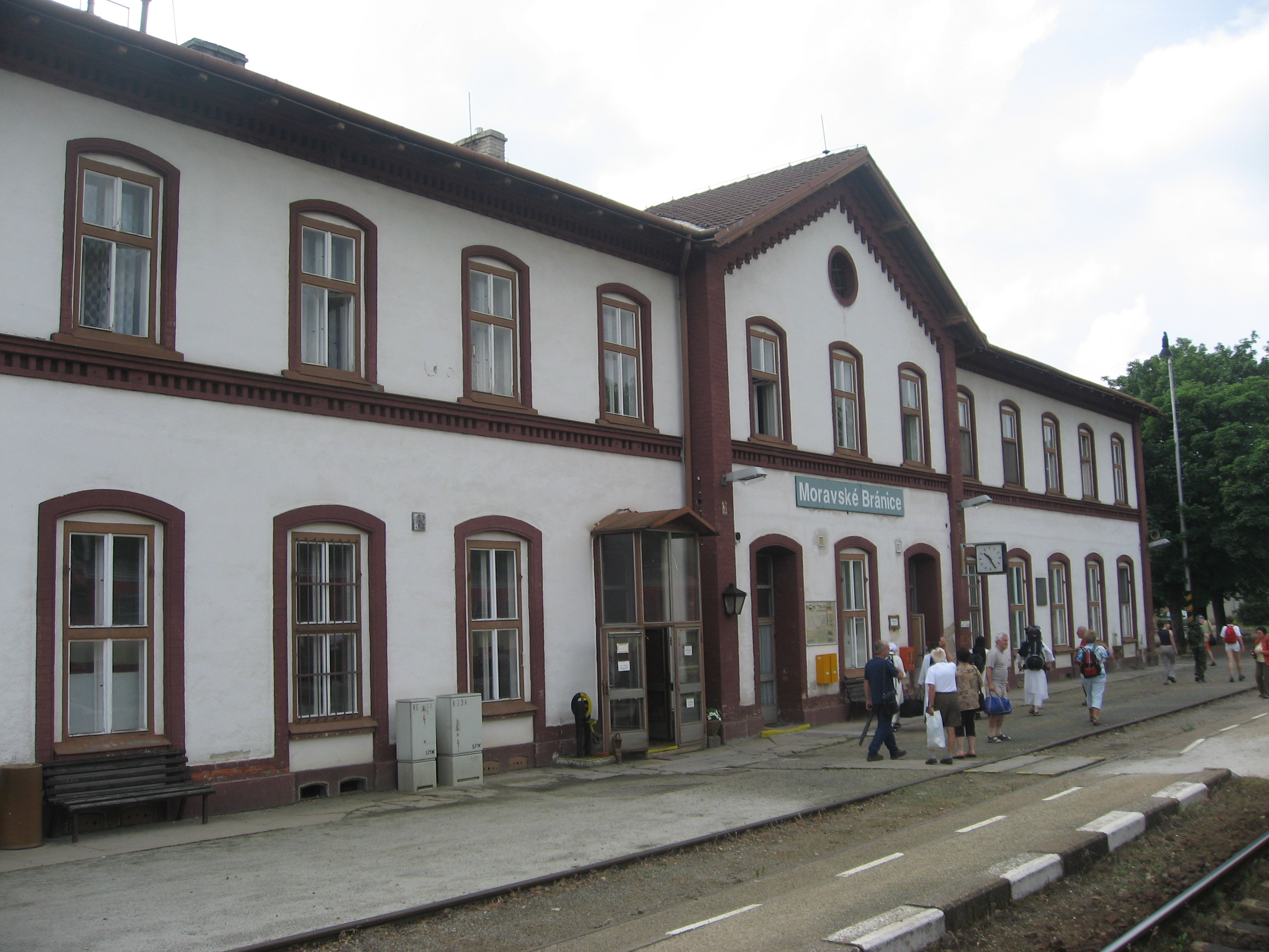 Railway-station in Moravské Bránice, South Moravian Region, Czech Republic